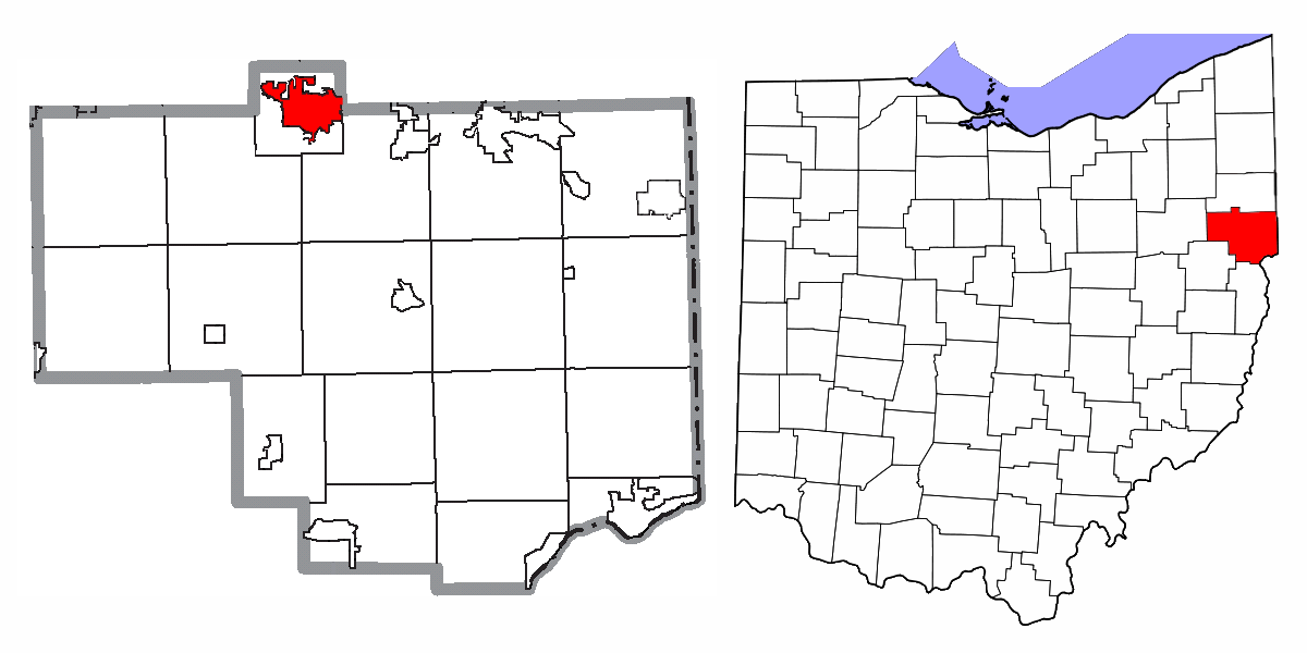 Map highlighting City of Salem, Columbiana County, Ohio.